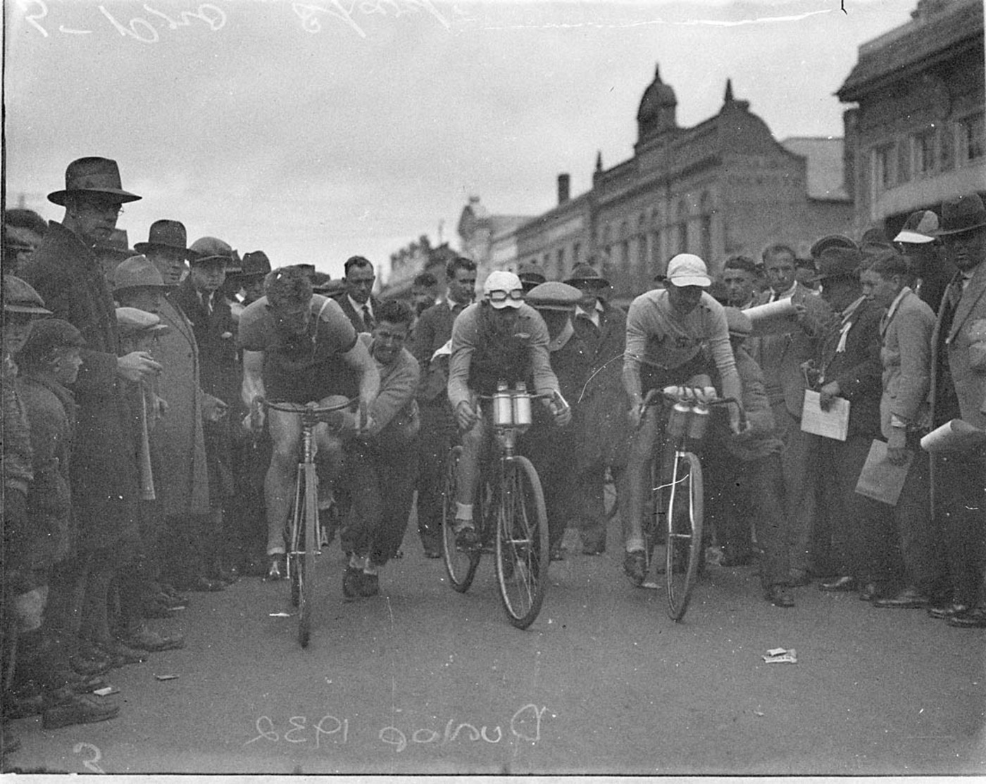 Start of the Dunlop Road race (Goulburn to Sydney) at Goulburn: five-pro start